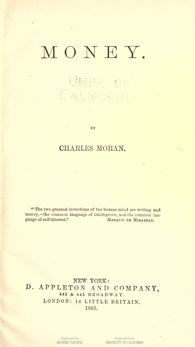 Title page Charles Moran, Money. New York, D. Appleton and Co., 1863.